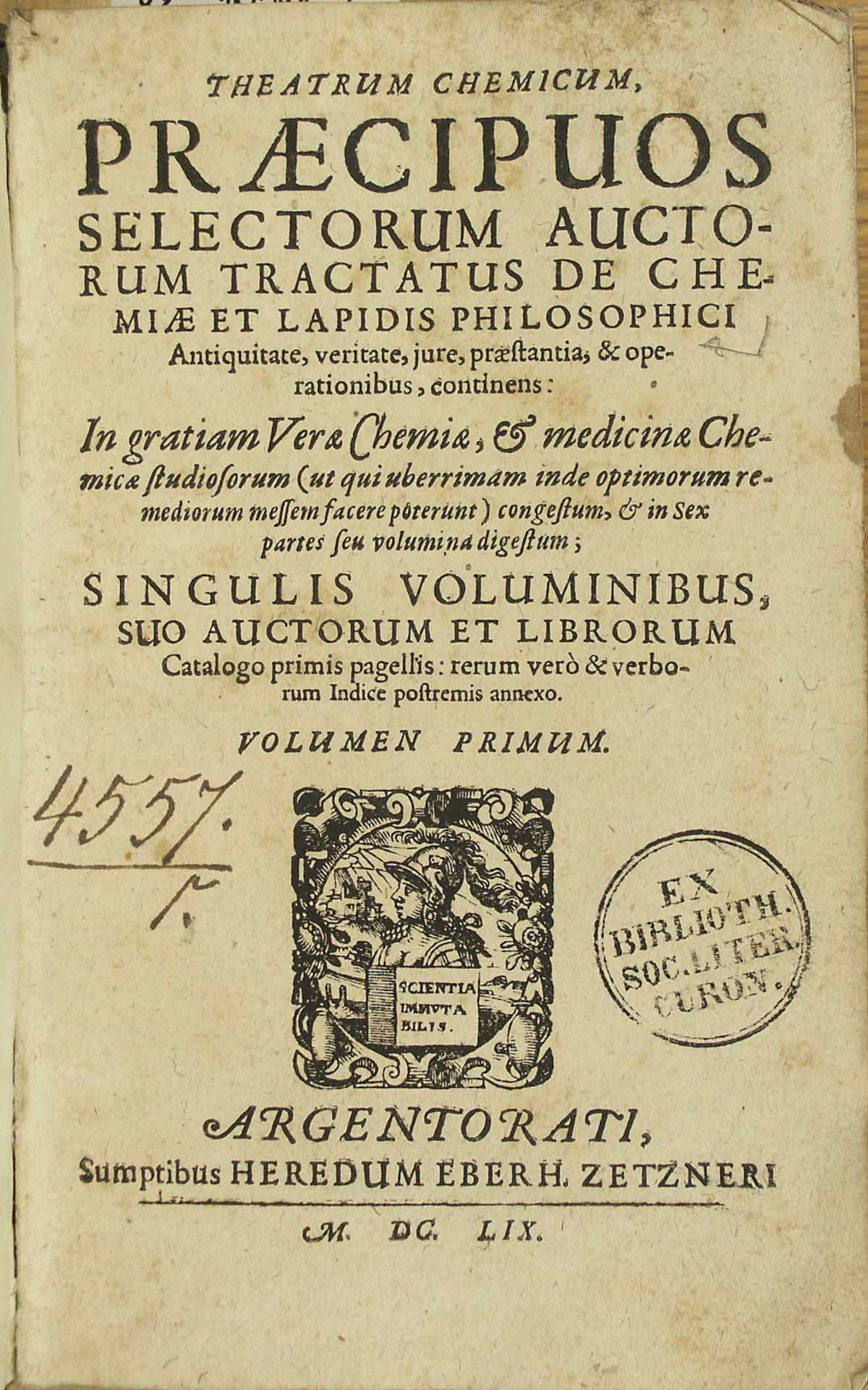 Page 1 of "Theatrum Chemicum", Volume I, printed 1659 in Straßburg, Germany (today France) by Lazarus Zetzner (Zetznerni, Zetznerus)